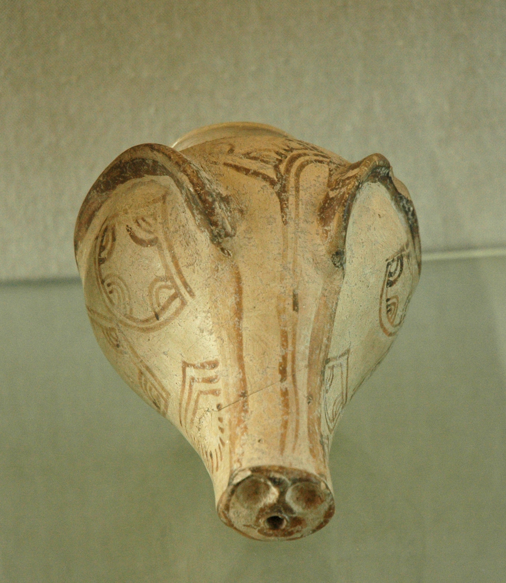 Boar rhyton. Mycenaean ceramic imported by Ugarit. Found in the acropolis of Ras Shamra.